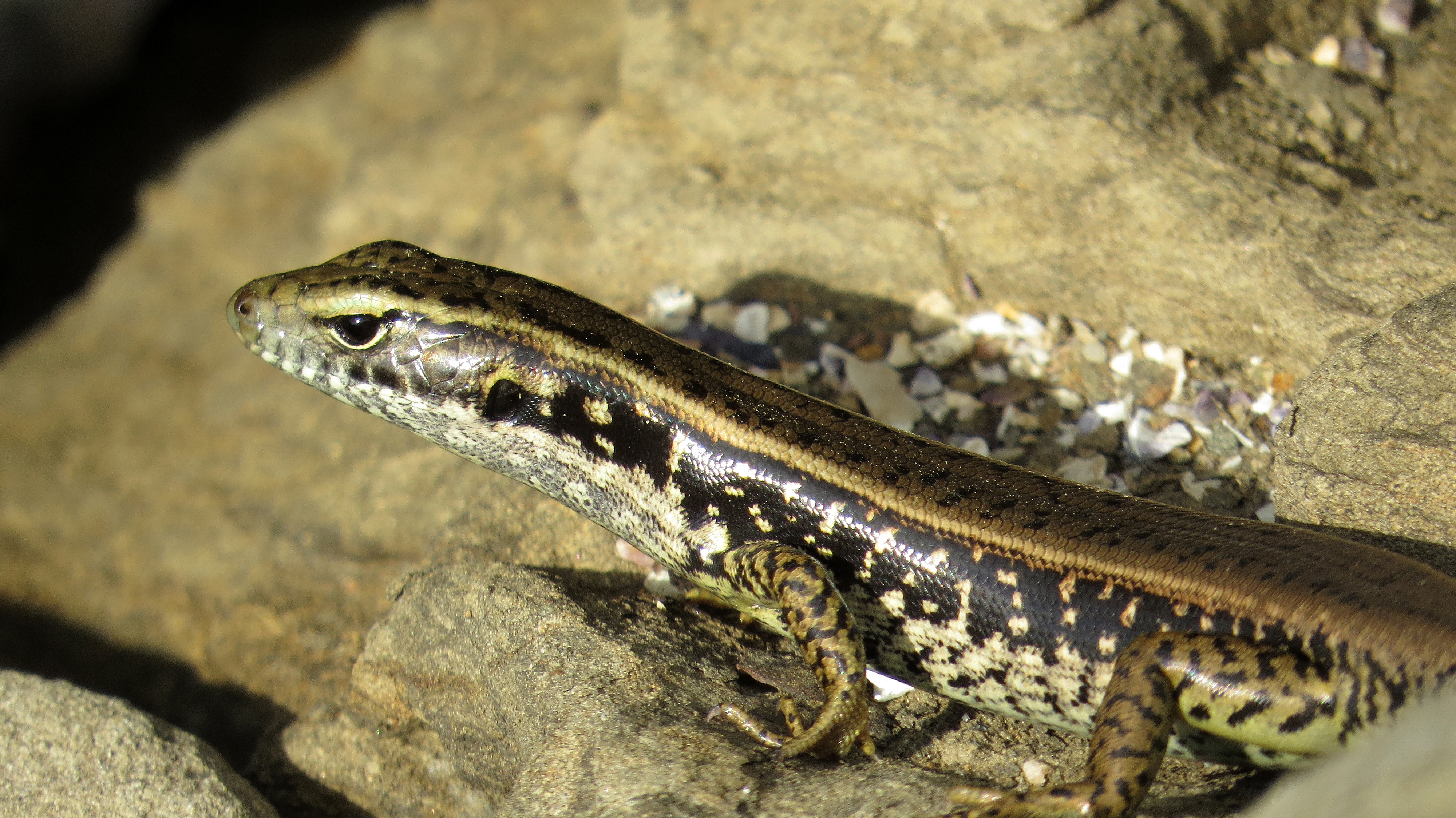 Eastern Water-skink, Eulamprus quoyii. Gerroa, NSW, Australia, February 2014.